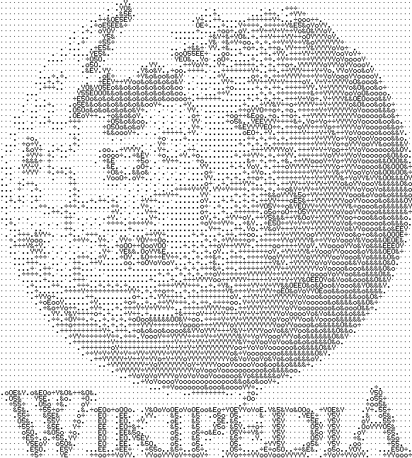 Realization of the Wikipedia logo in a monospace text. The uploader claimed that it is an ASCII art, but it contains such characters as · and ÷ which are not ASCII of course.